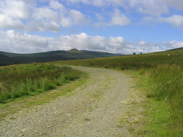 A track to the west of Shankend Farm The twin summits in the distance are the Maiden Paps.